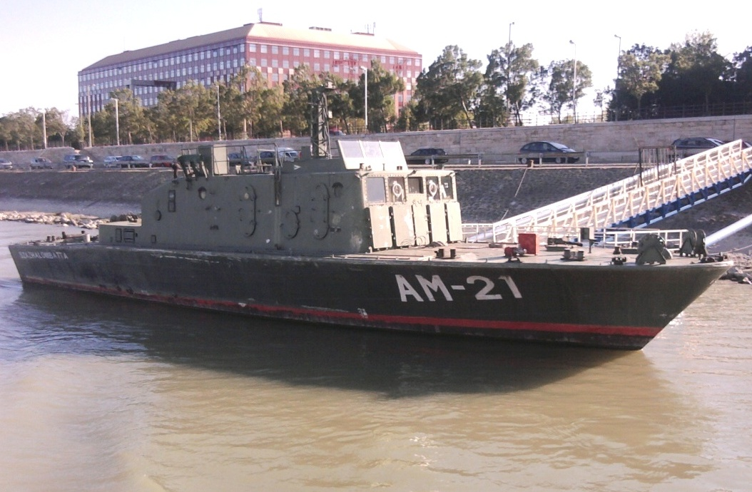 Retired AM-21 Százhalombatta minesweeper of the Hungarian Home Defence Forces, Budapest at the Eötvös Loránd University Lágymányos campus - South Block